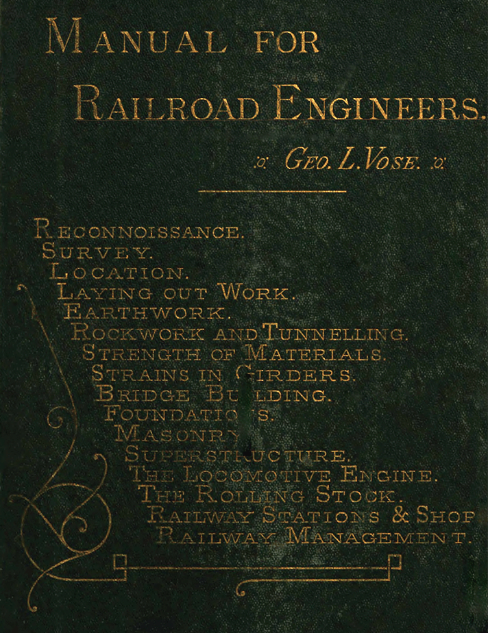 For the engineering student, the aim has been to present, in a connected manner, the various operations that go to make up the laying out and building of a railway, and at the same time to give him an idea of those modifications which his abstract science must receive before it is fit to be applied to practice. There are many problems in practical engineering embracing so large a number of variable elements that it is simply impossible for science to solve them in a satisfactory manner. In such cases we may often, by accumulating a large amount of experience, deduce an empirical rule, which will answer every requirement ;and it is important that the student should be able both to accumulate and arrange the results of practice, and to draw therefrom rules for his own guidance.